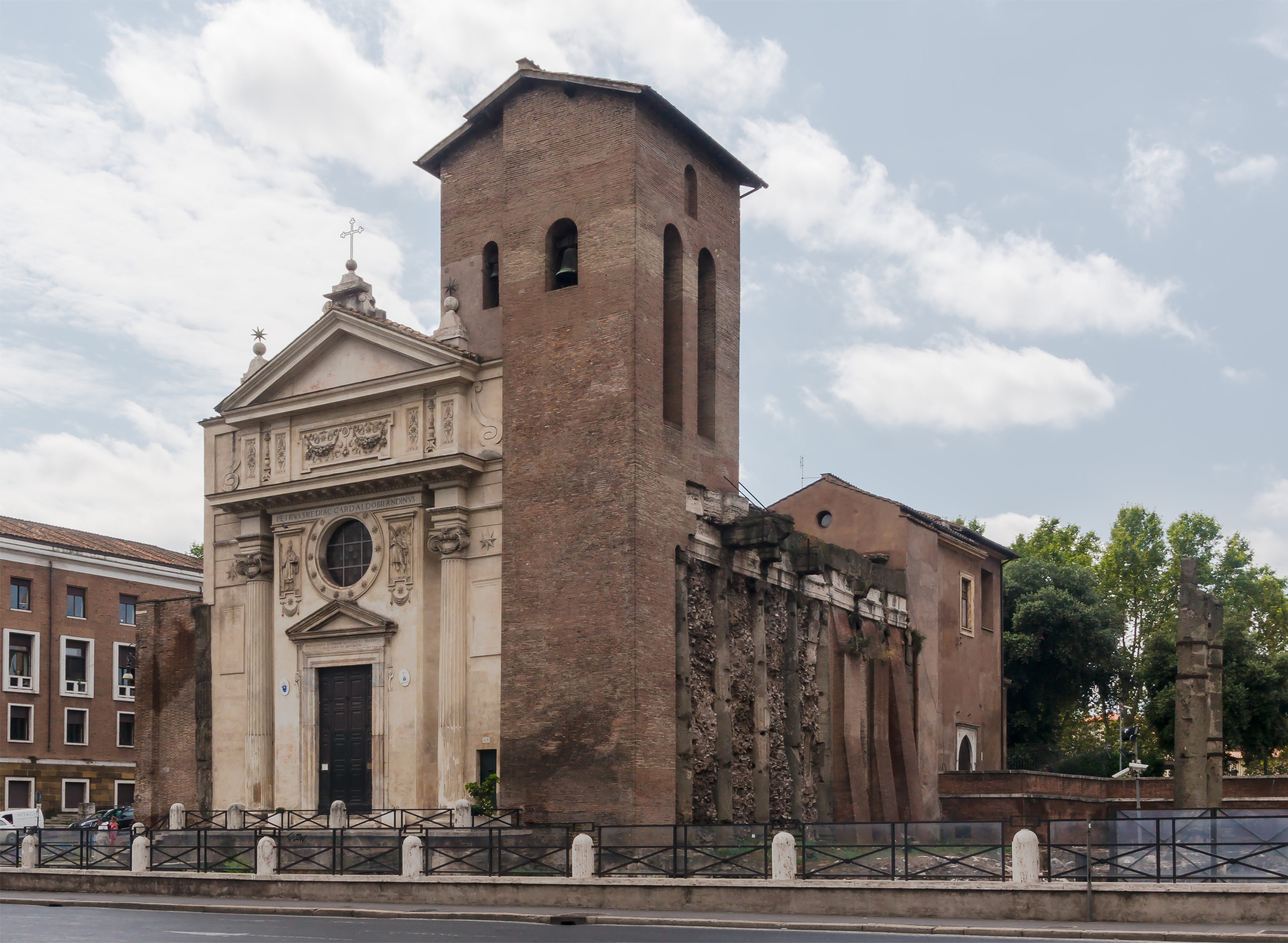 San Nicola in Carcere church, Facade and northern wall, Rome, Italy